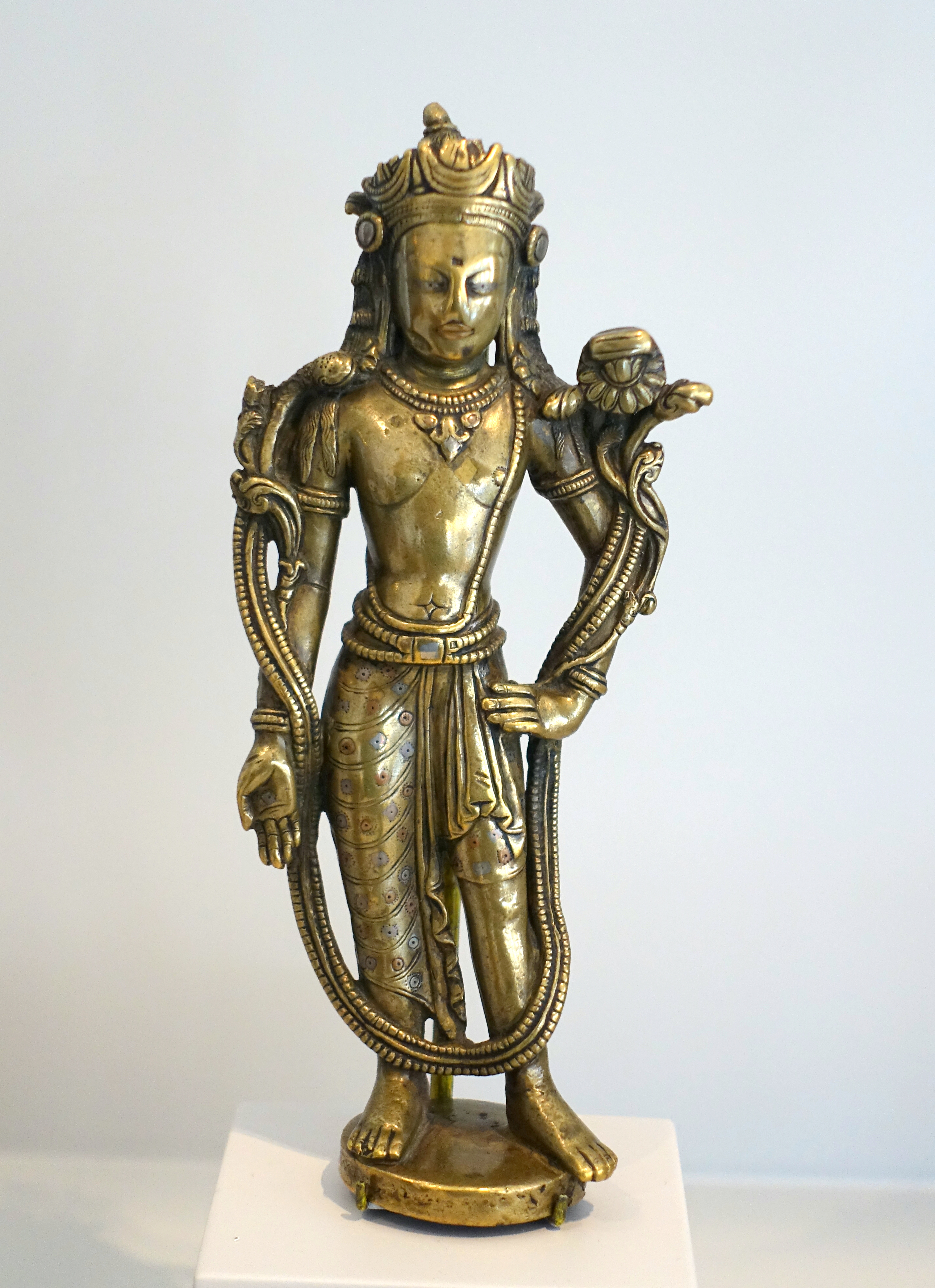 Exhibit in the Arthur M. Sackler Museum, Harvard University, Cambridge, Massachusetts, USA. This artwork is in the public domain because the artist died more than 70 years ago.